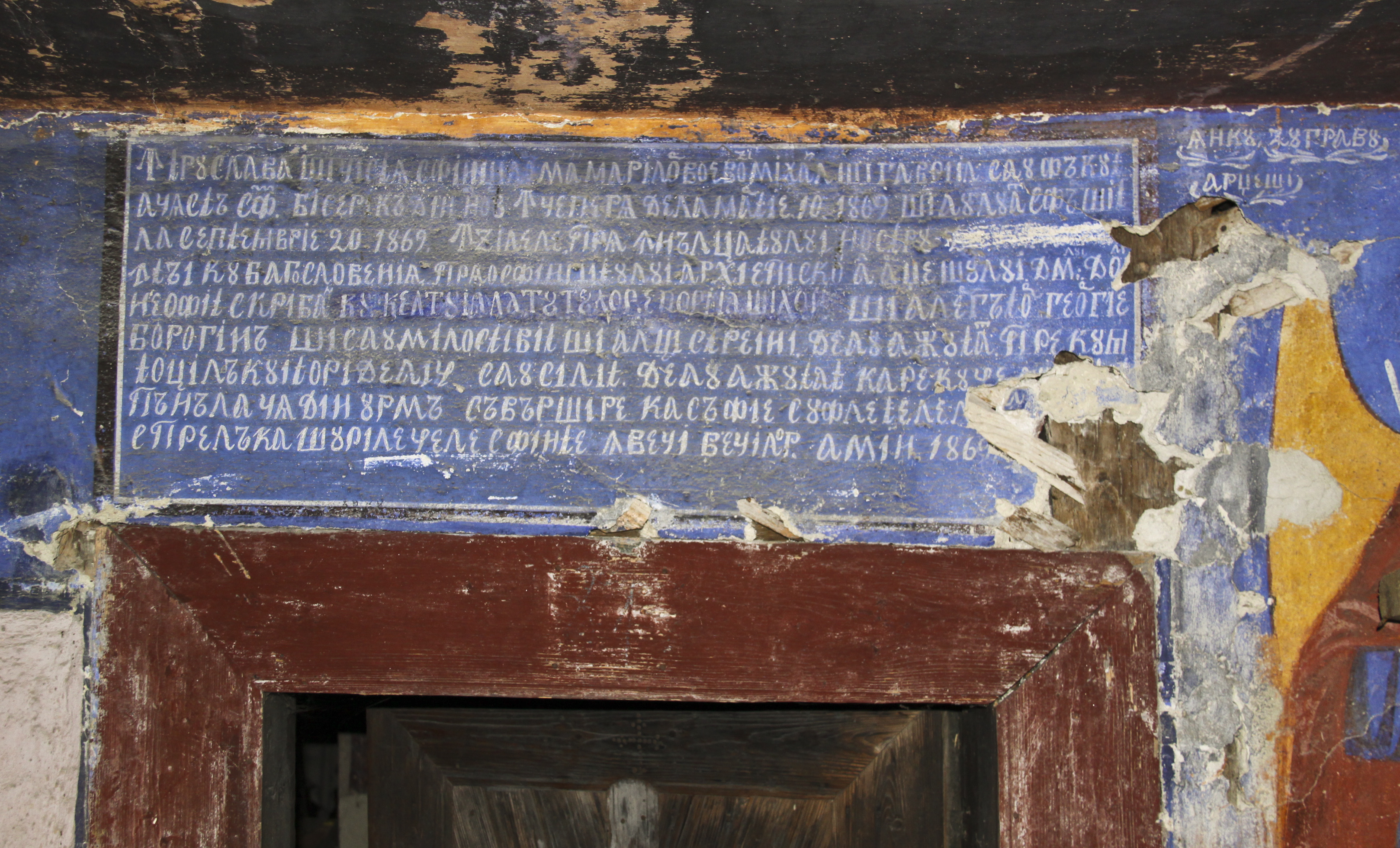 Borovineşti, Argeş county, Romania: the wooden church.